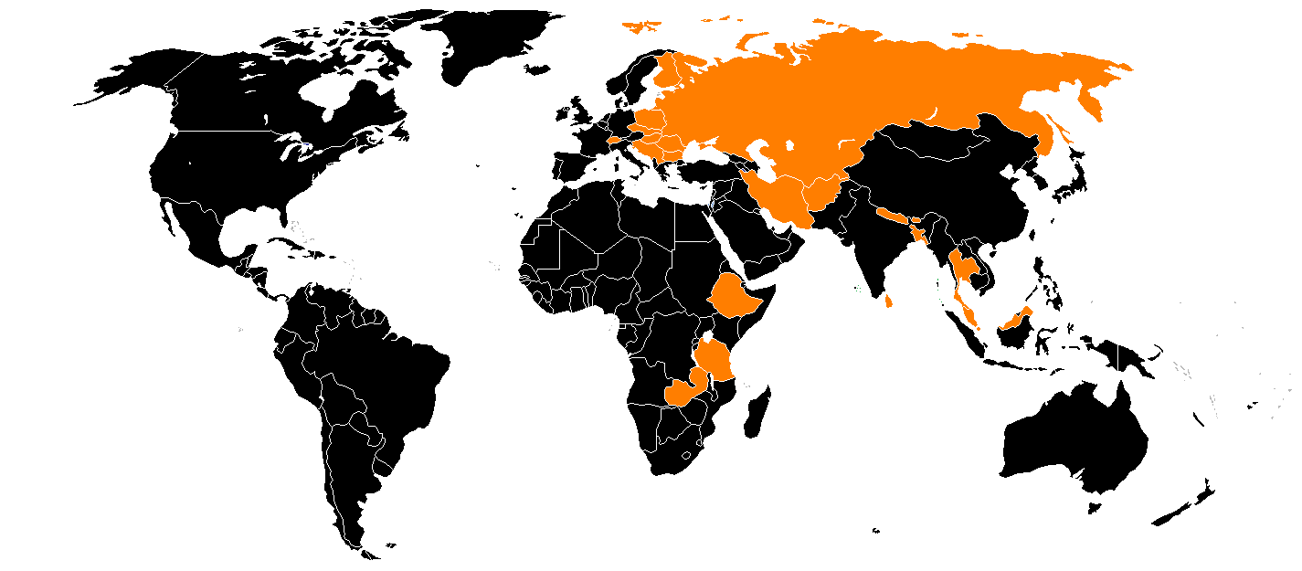 President V V Giri led 14 state visits between 1970 and 1974, covering 21 countries. Information from the President of India's Secretariat.